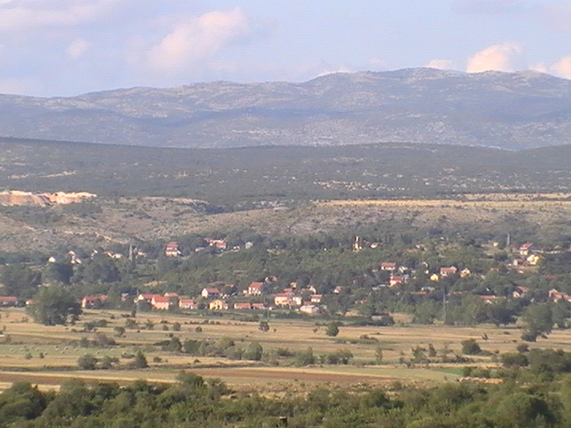 Kadina Glavica, Croatia.